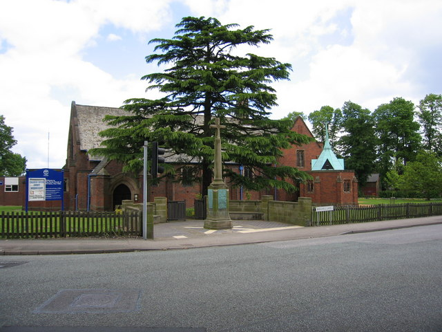 All Saints Parish Church, Four Oaks. Situated in Belwell Lane, Four Oaks, Sutton Coldfield.